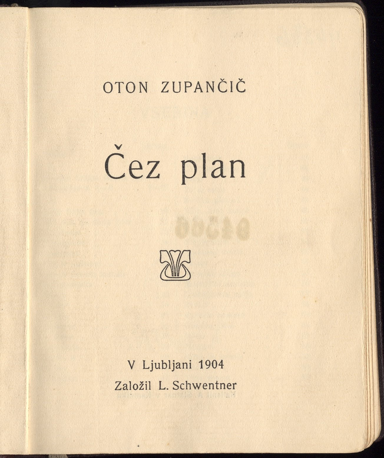 Cover of the Čez plan.